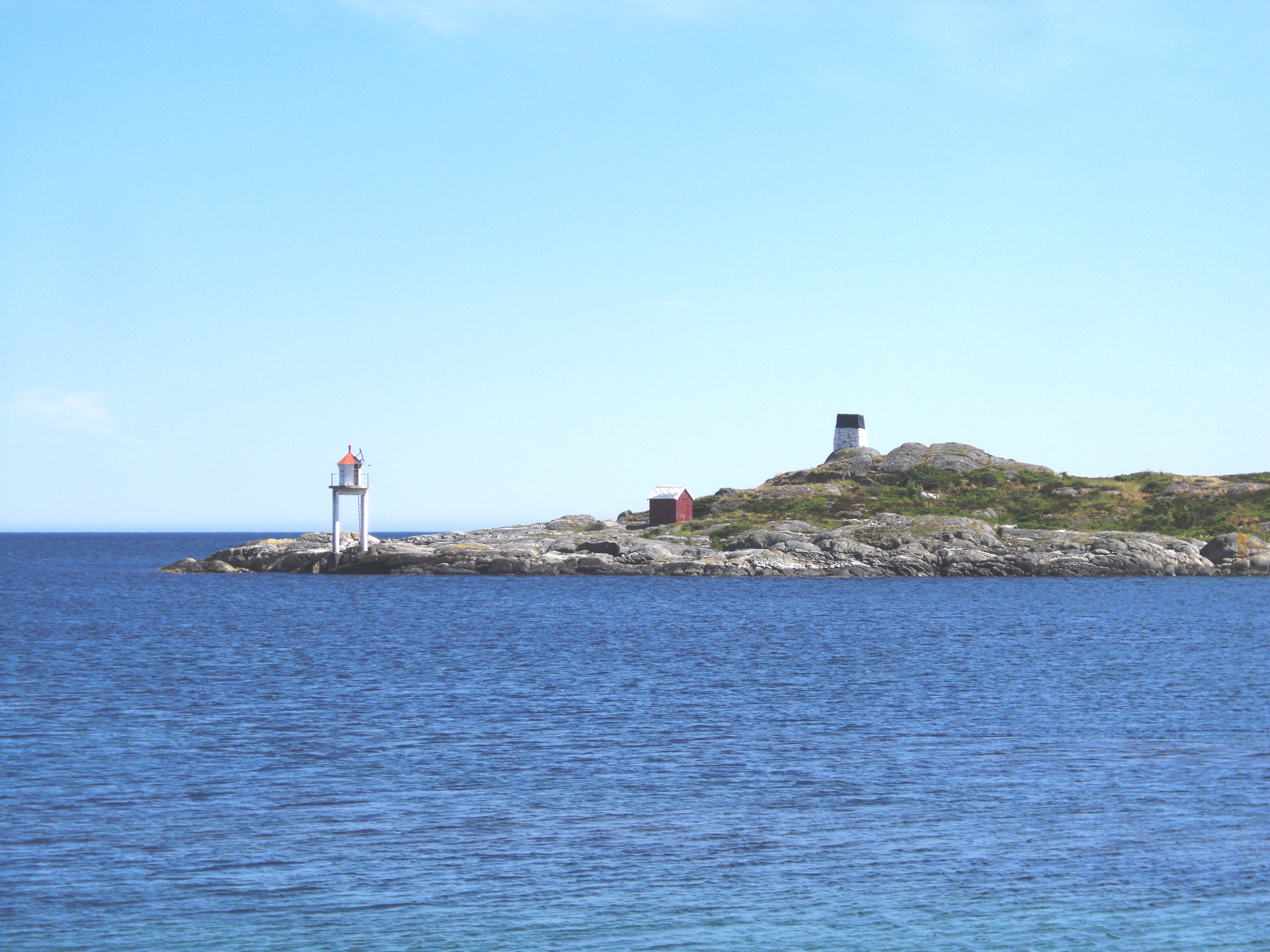 Leiholmene